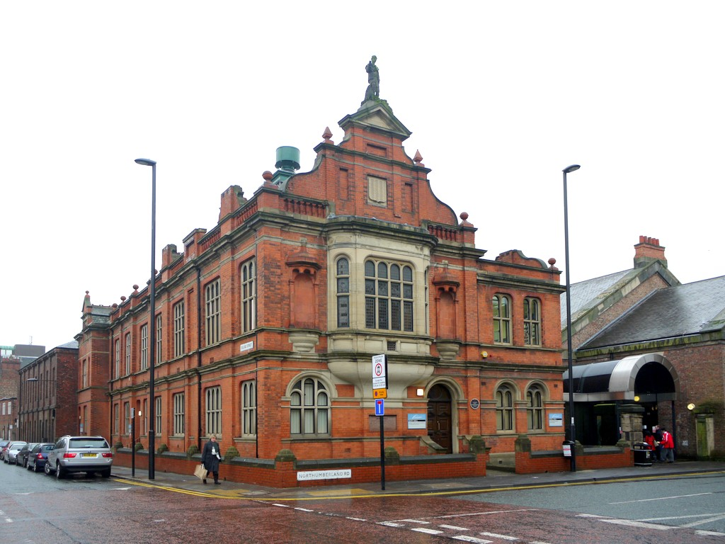 Burt Hall, Northumberland Road Located on the south side of Northumberland Road on the corner of College Street, Burt Hall was built in 1895 for the Northumberland Miners' Association. It was named after Thomas Burt (1837-1922), the first working miner to become a Member of Parliament. The building was the headquarters of the Northumberland Branch of the National Union of Mineworkers until the early 1990s. It is now part of Northumbria University. The statue at the building's apex is a miner with his pick and lamp, modelled on a figure in Ralph Hedley's painting, 'Going Home'